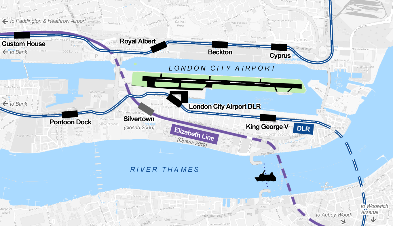 Map of DLR lines serving London City Airport with the route of the Elizabeth Line (Crossrail, opening 2019) passing in close proximity, and the site of the former Silvertown railway station